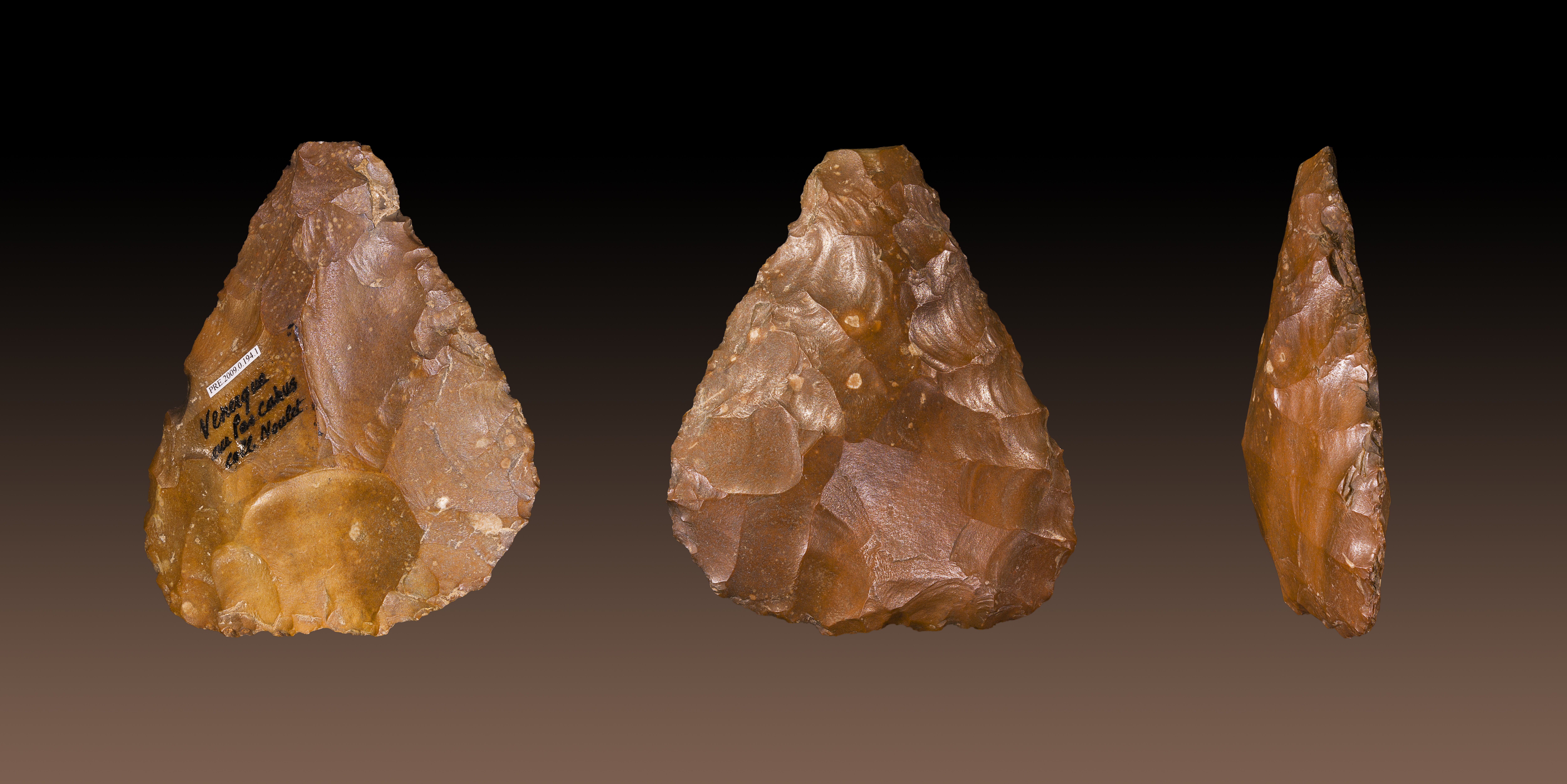 Flint Biface Stage : Lower Paleolithic (to - 1 Ma from - 300 000 years Before the Current Era) Locality : Venerque, Haute-Garonne, France Former collection of Jean Baptiste Noulet (1802 - 1890) Different views of the same specimen. Size : 125x107x31mm